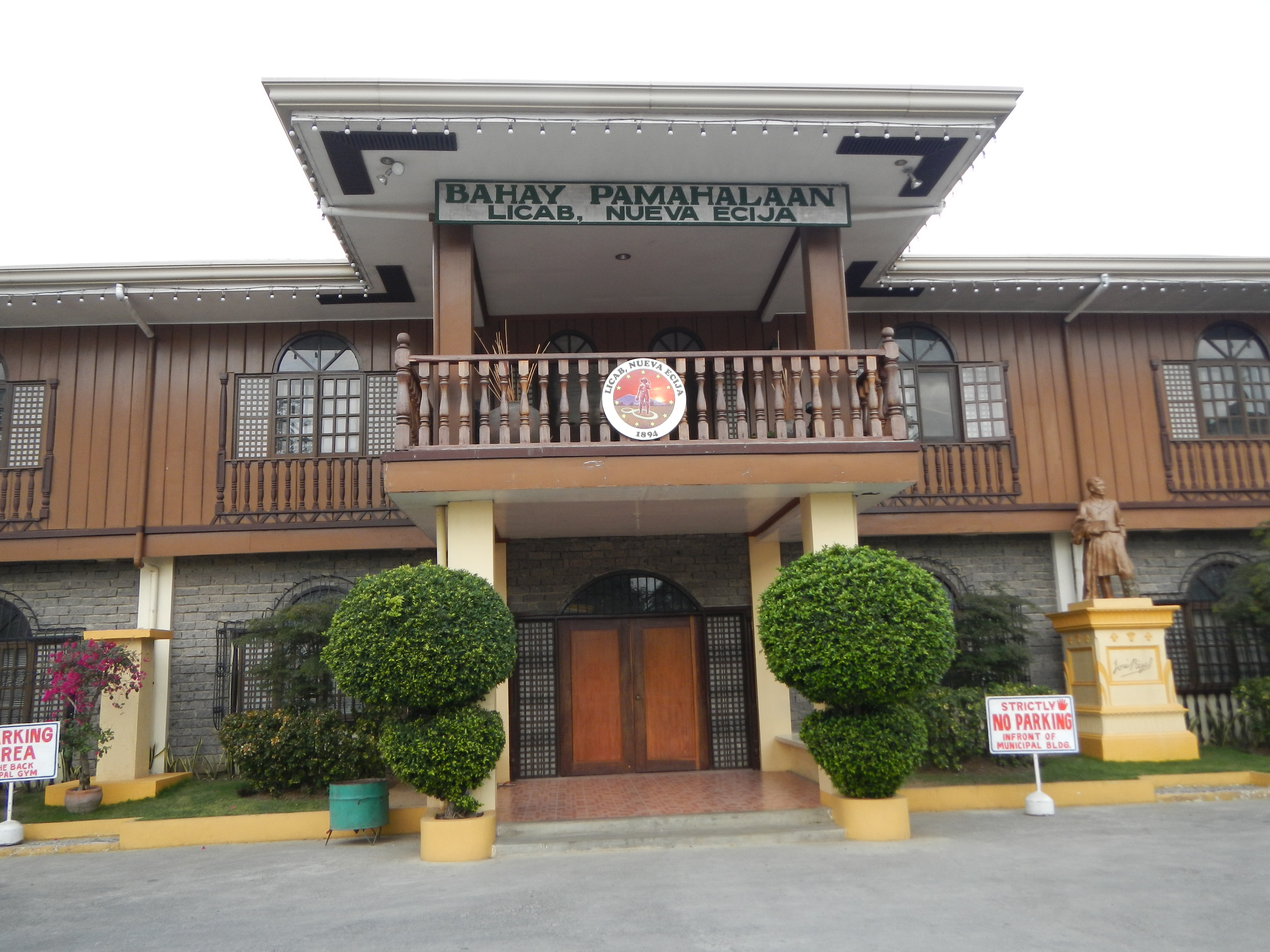 [1]Licab, Nueva Ecija is a fourth class municipality in the province of Nueva Ecija, Philippines.[2]Kariton Festival: Licab Town Fiesta 28 March 2010[3][4]Coordinates: 15°33'11"N 120°45'34"E[5]Kariton Festival Last Saturday of March - rig-cart drawn by carabao[6]